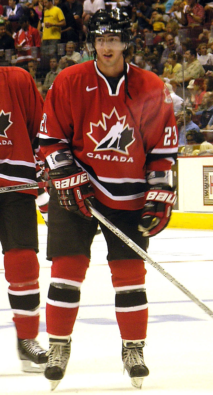 071 Hockey Canada Hockey Day August 15, 2005 GM Place, Vancouver Pentax OptioSV Digital